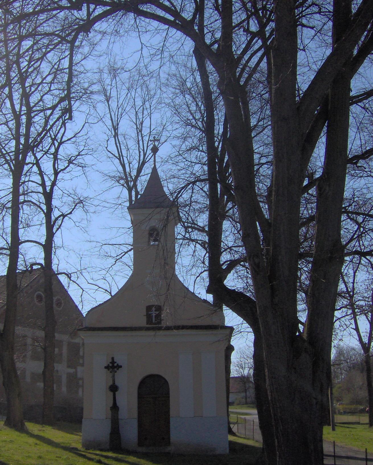 Chapel in Radkovice, a part of Úlehle, Strakonice District, Czech republic